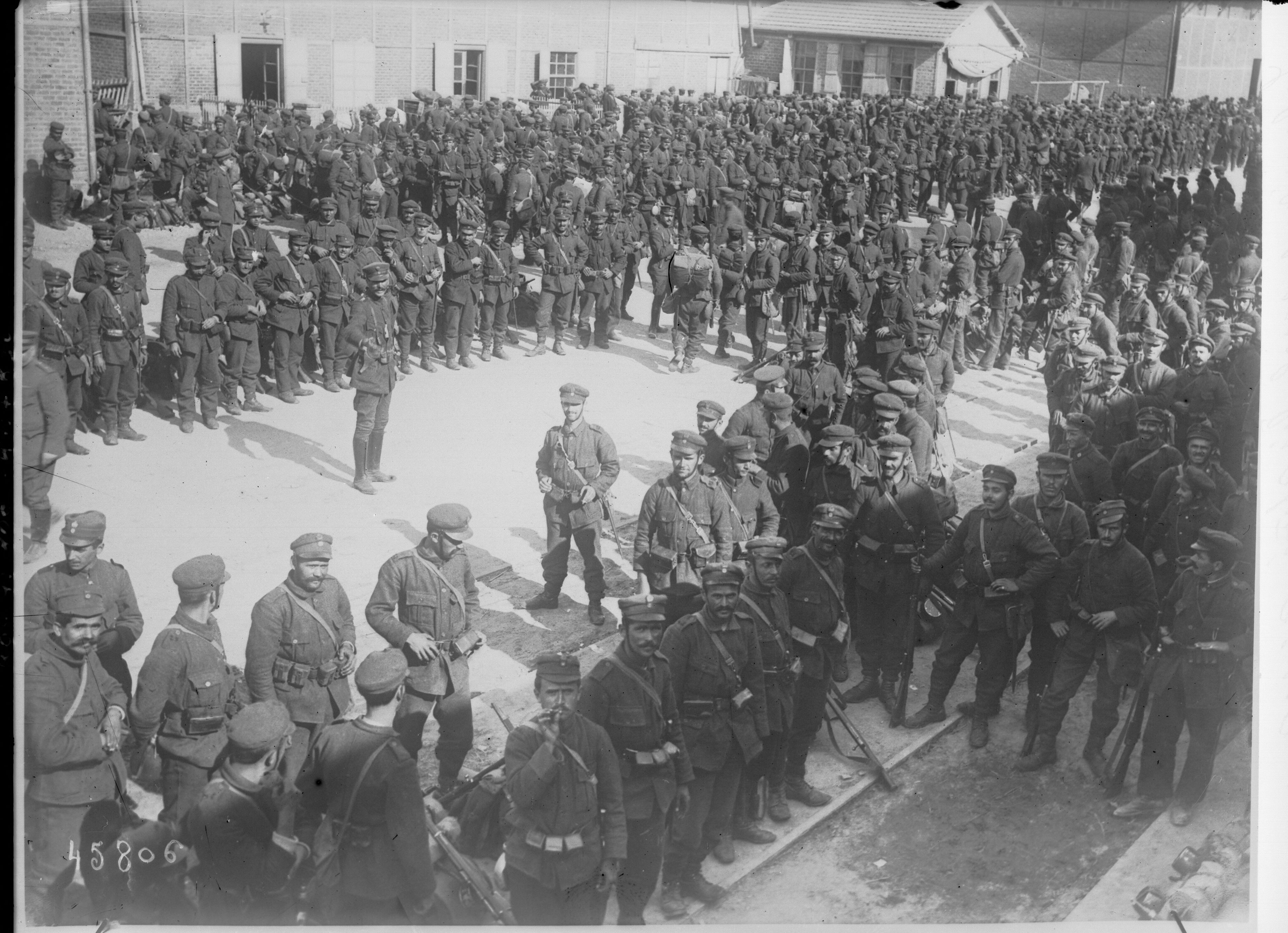 Greek soldiers during the mobilisation of summer 1915